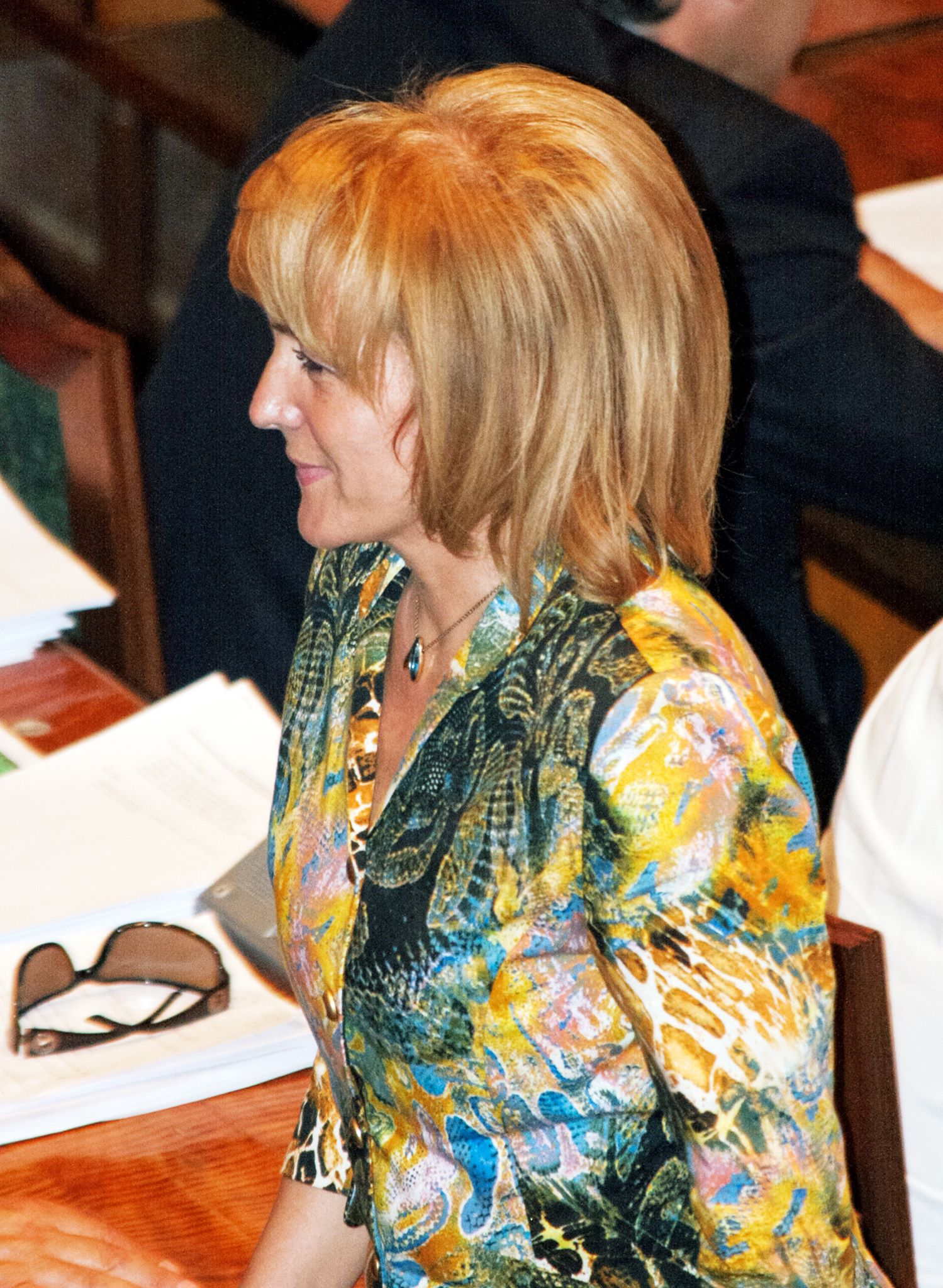 Pernaska in the Albanian Parliament